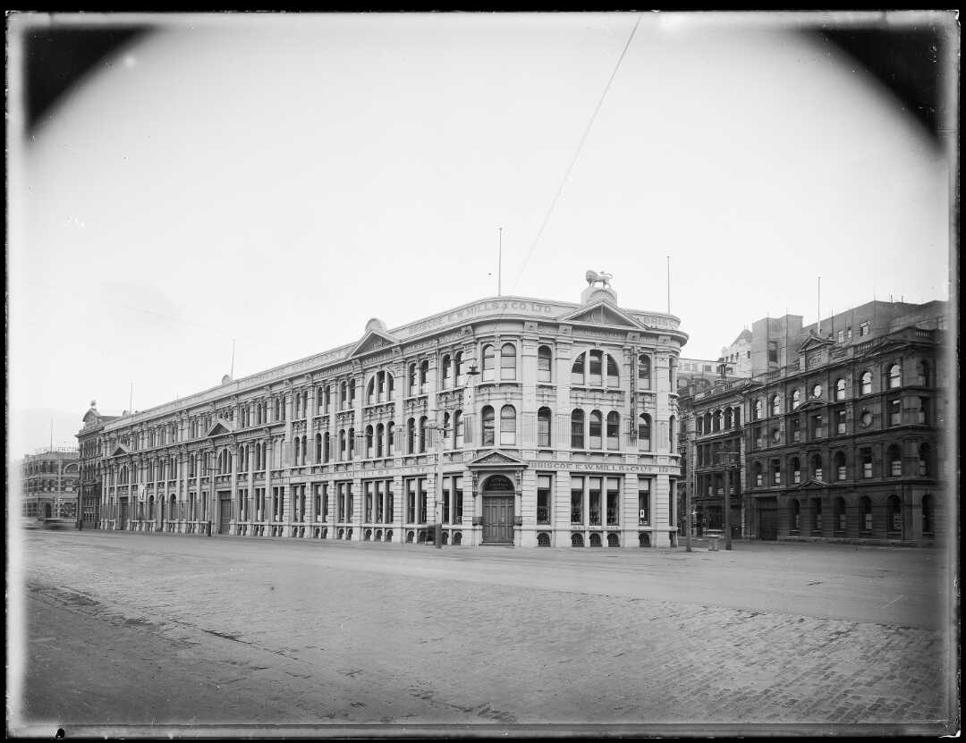 E W Mills warehouses on Jervois Quay circa 1940 at the junction of Victoria Street, Hunter Street and Jervois Quay Wellington, New Zealand after the amalgamation with Briscoe (see neon sign)